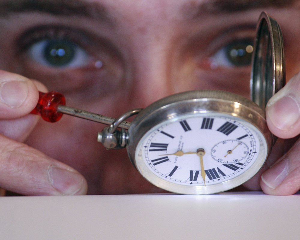 The joy of learning what makes things tick. Possible entry for adult education competition. Picture free to use - please credit Alan Cleaver. See other free pictures in my Freestock set